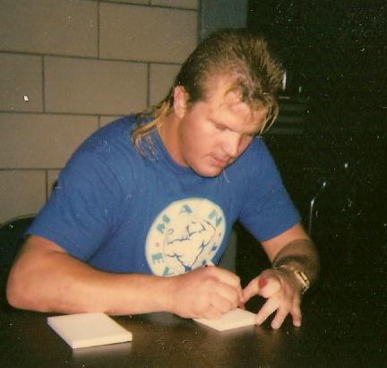 Professional wrestler Bobby Eaton, in a scan of a Polaroid photo taken by me at an autograph signing in 1991, at the height of his career.